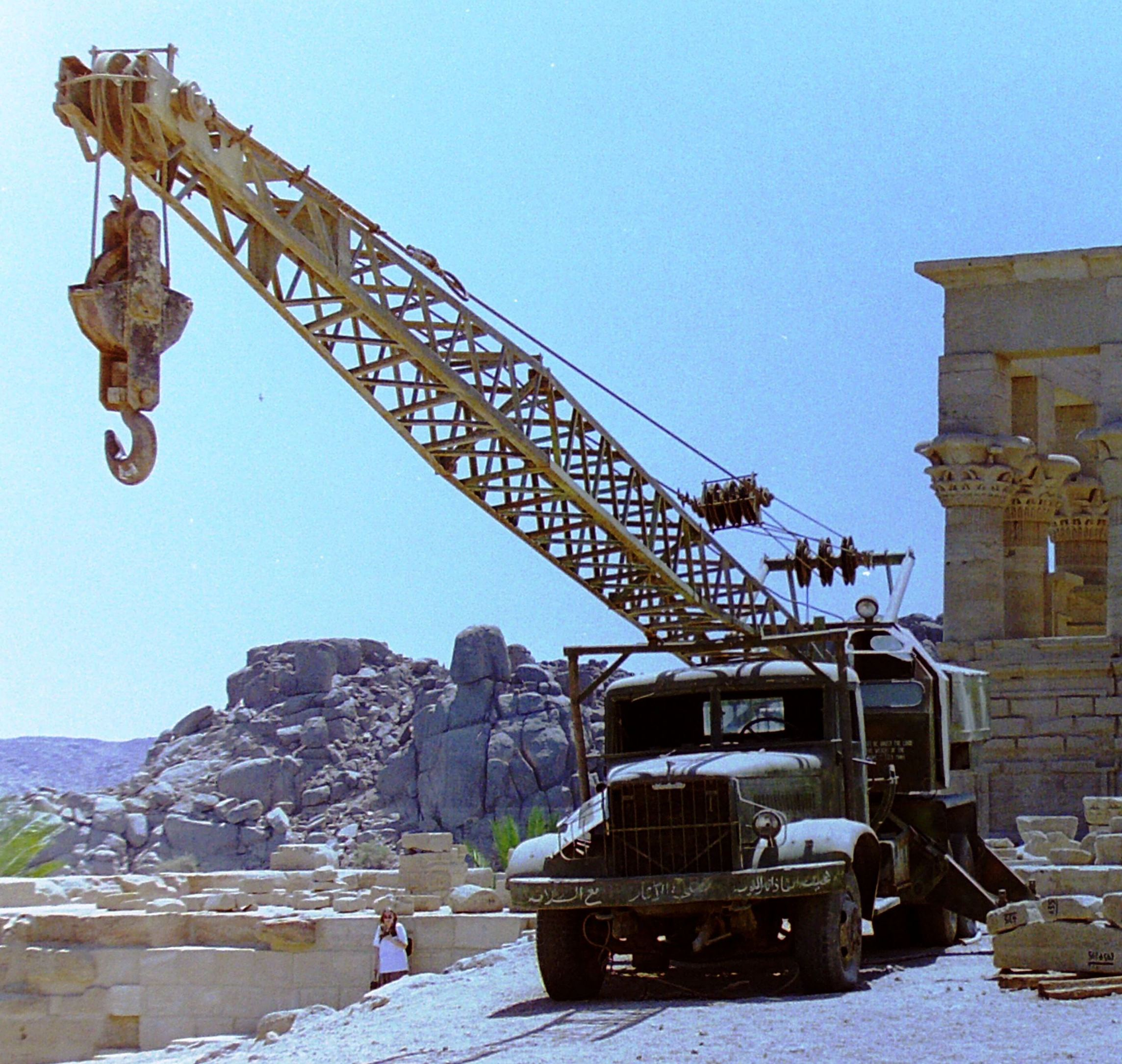 Russian KrAZ-219-based crane truck (K-162) at Temple of Hathor in Philae. Photo taken 1995 with a Minox 35 PL.